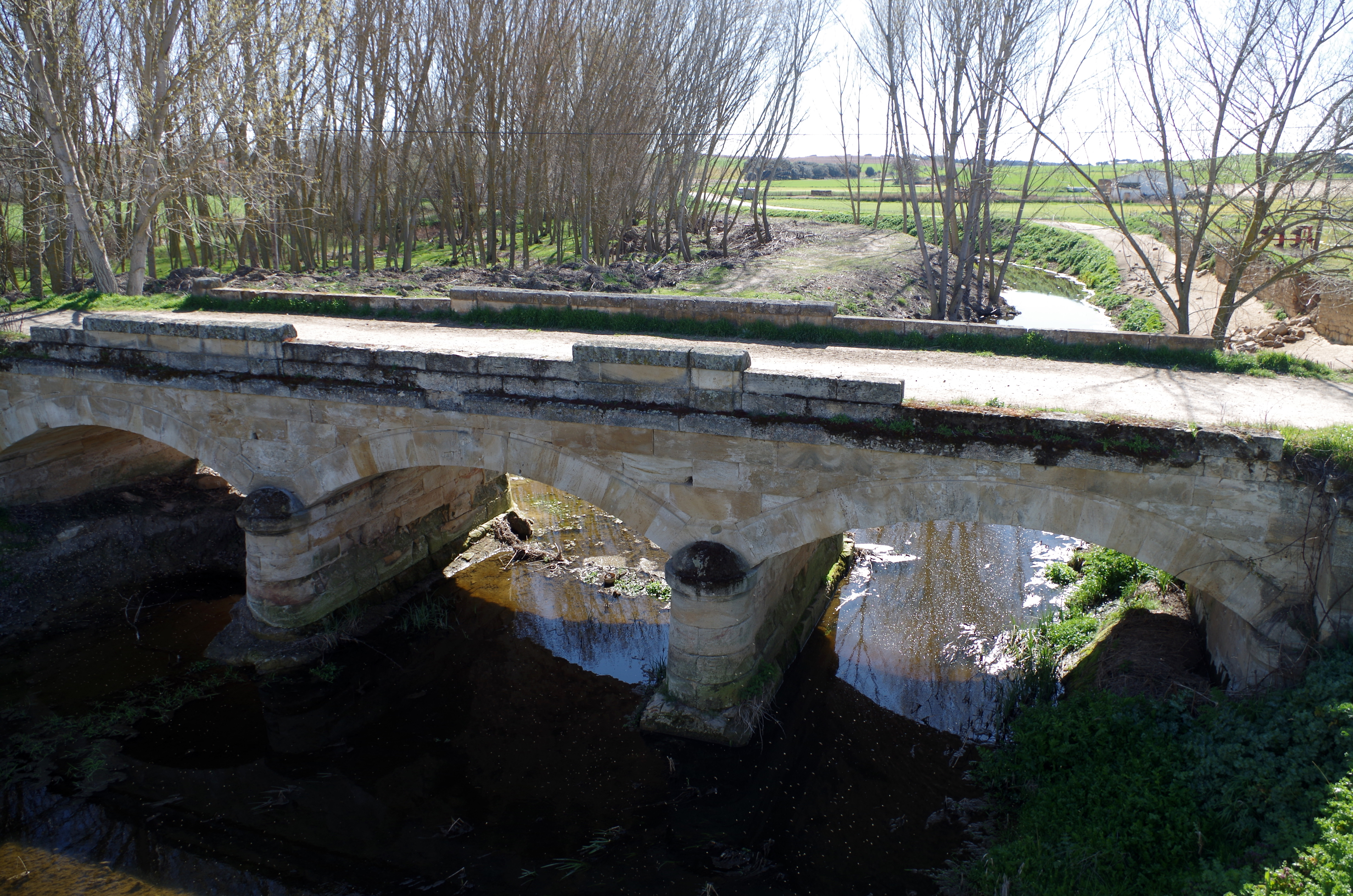 Bridge over river Guareña in Vallesa de la Guareña (Zamora, Spain).